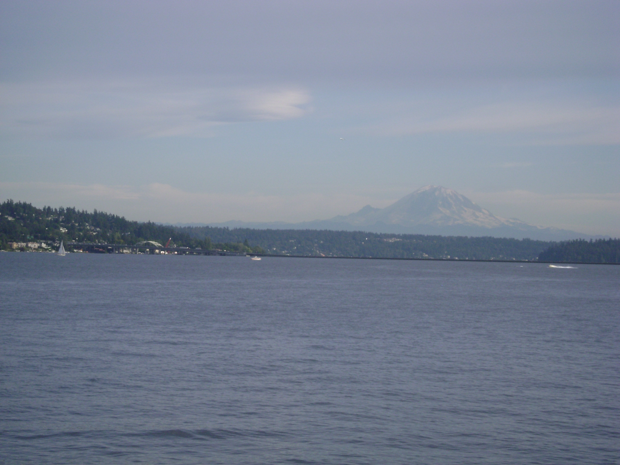 Lake Washington, Seattle